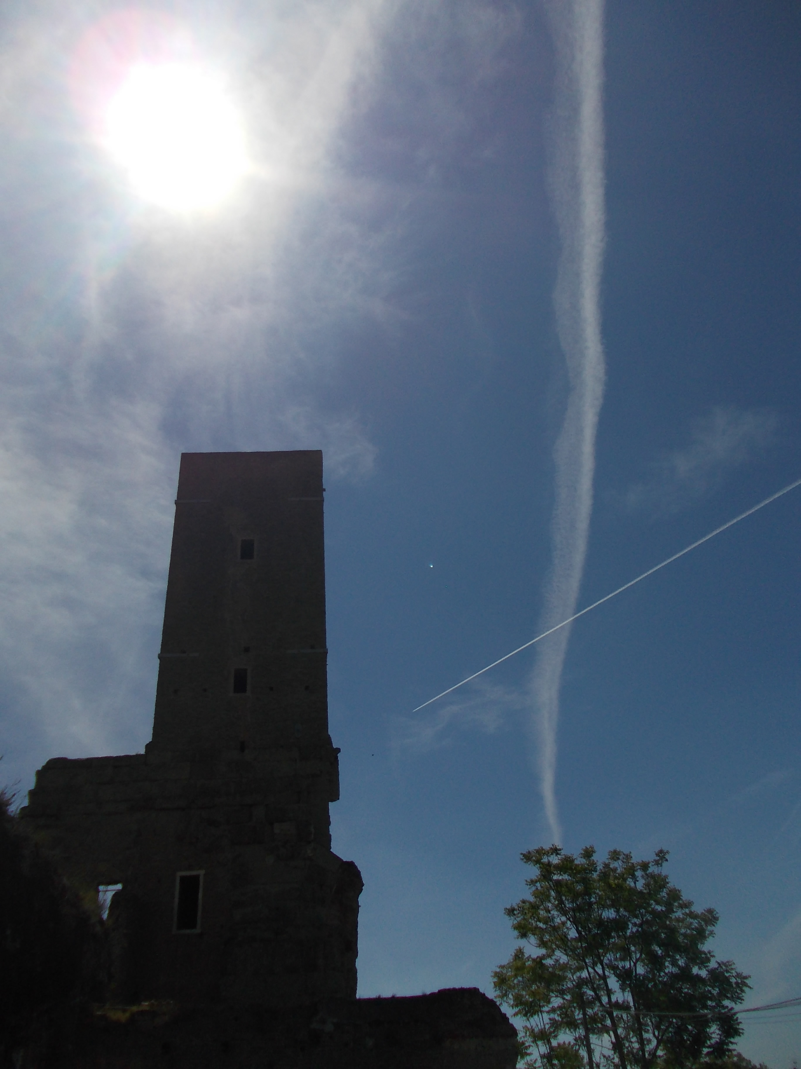 Tor Fiscale, a XIII century tower in Rome